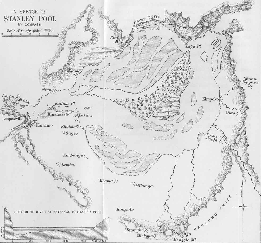 Map of the Pool Malebo (Stanley Pool) — lake-like section of the lower Congo River. Downriver on left edge Kinshasa (south/lower bank) and Brazzaville (north/upper bank), at transition from 'pool' to Livingstone Falls rapids.